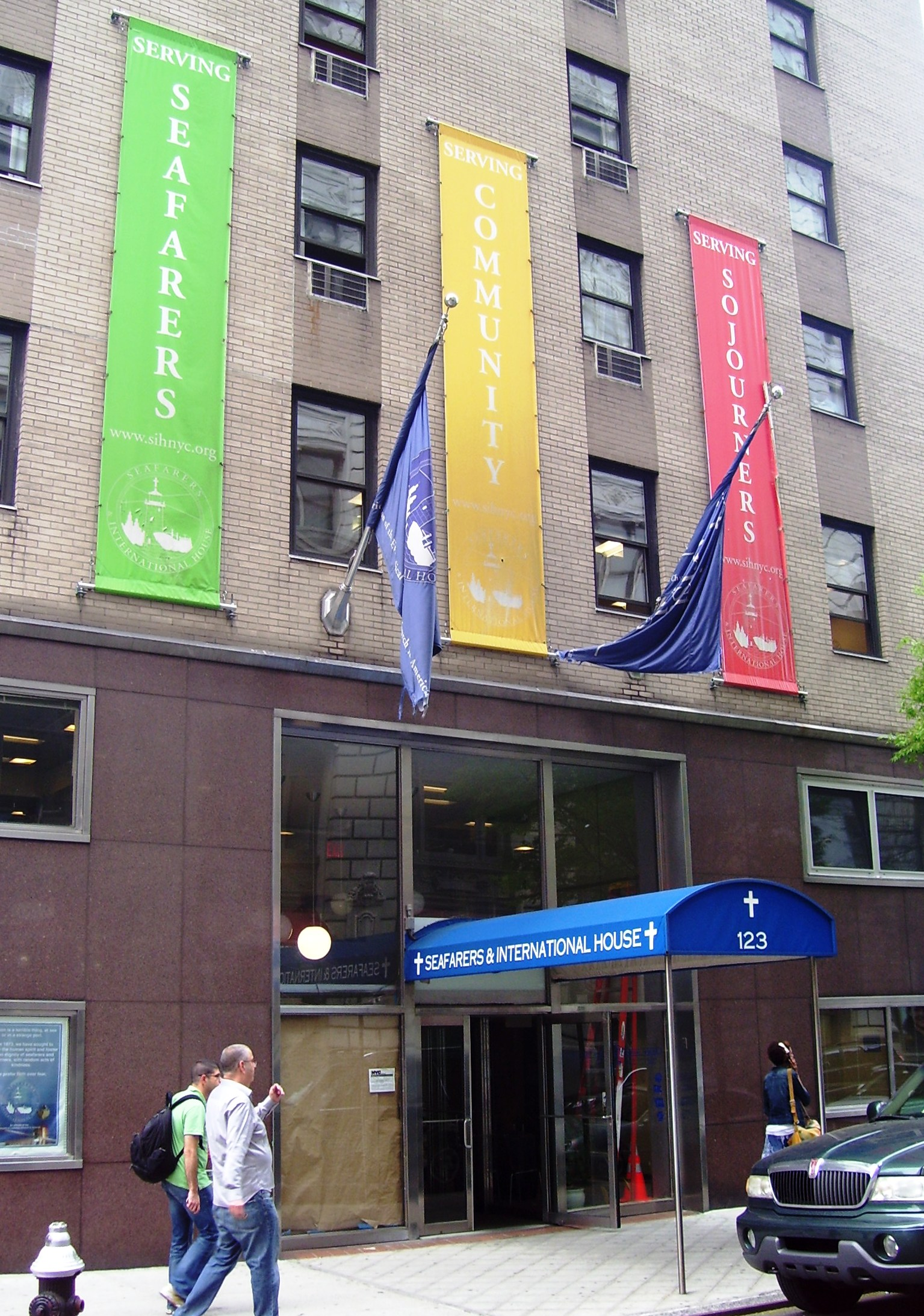 Seafarers & International House at 123 East 15th Street on the corner of Irving Place is a Lutheran Mission serving seafarers amd sojourners since 1873. It has a port ministry, an urban ministry and operates a 84-room guesthouse. (Source: Seafarers & International House official website)